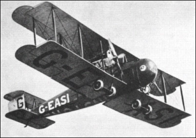 Vickers Vimy Commercial transport aircraft